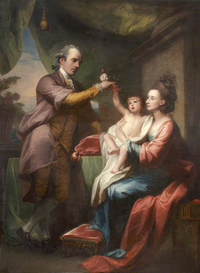 Family Group (called 'The Sheridan Family': Richard Sheridan, 1751–1816, Elizabeth Linley, 1754–1792)